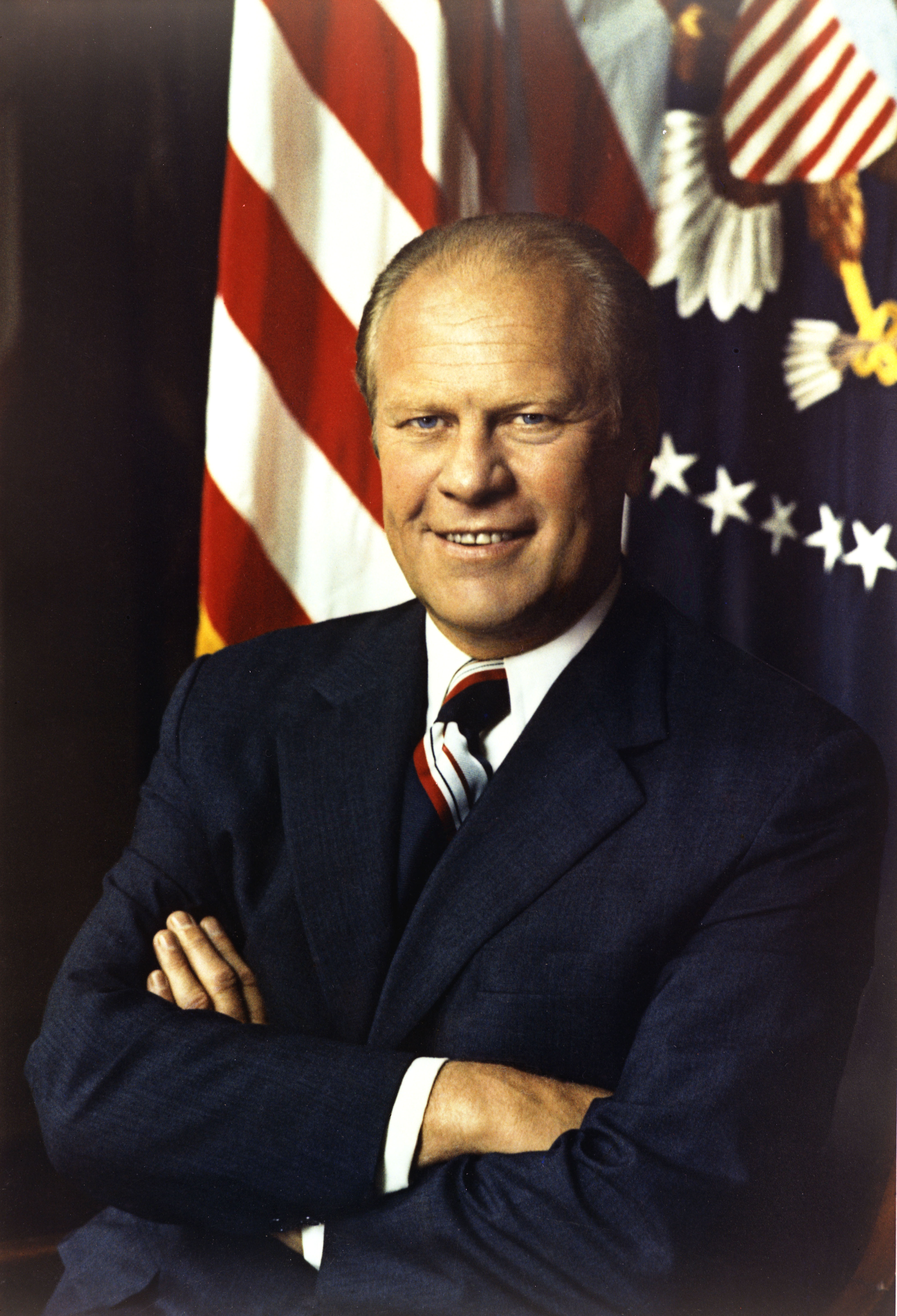 Gerald Ford, official Presidential photo.